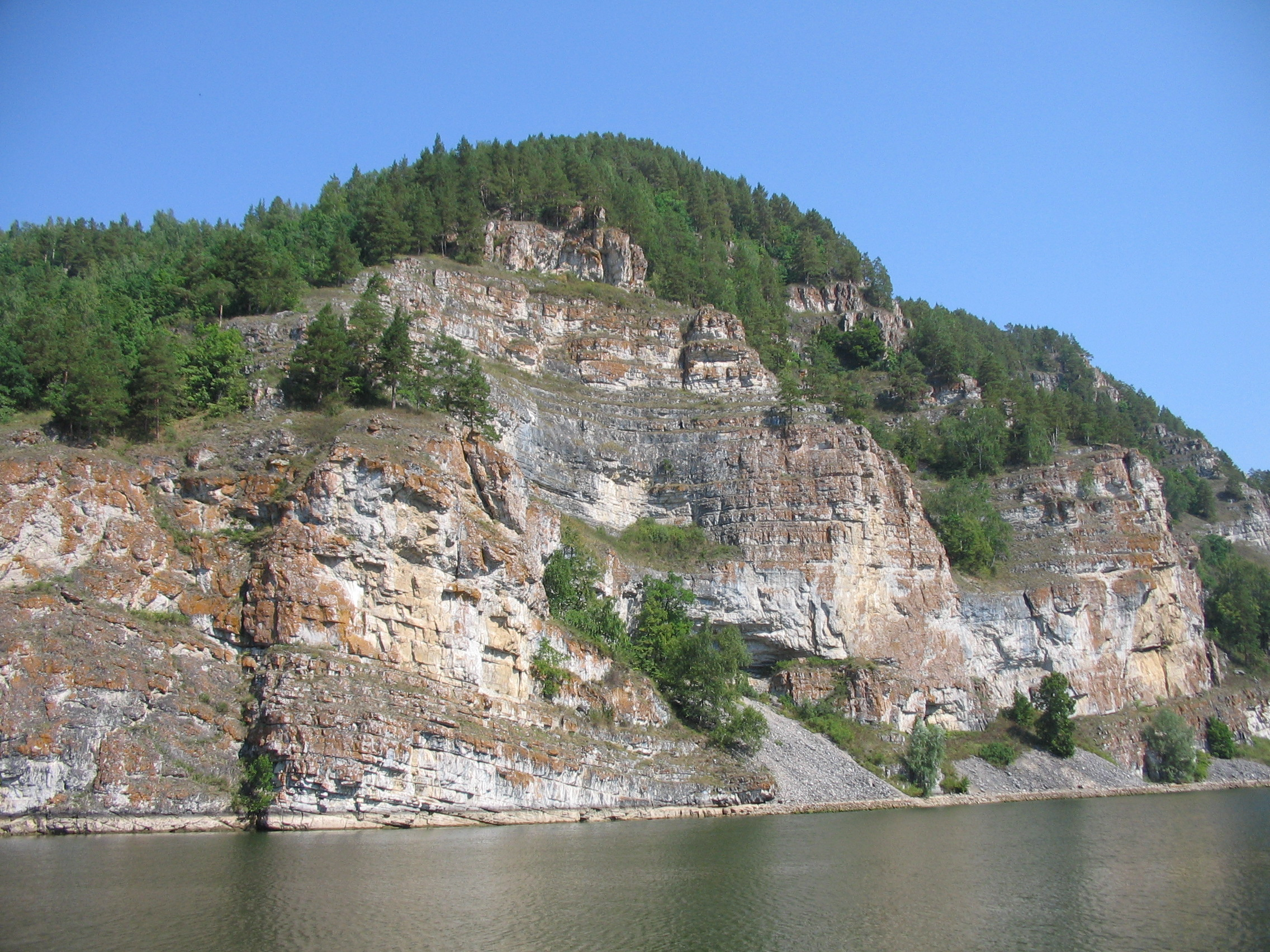 Nugush water reservoir storage in Bashkortostan of Russian Federation